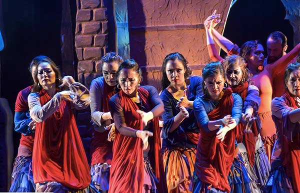 Aydanamara and her sister before the curse takes hold (La Luna Roja 2017)